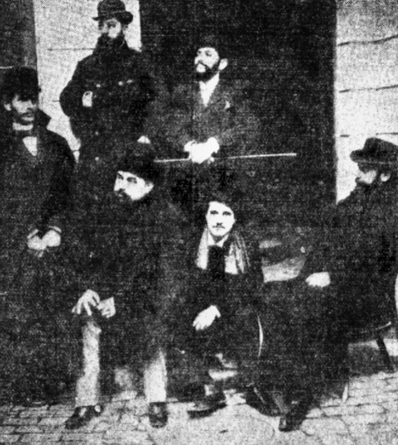 Editors of the Romanian newspaper Adevărul (from left, standing: Russe Admirescu, Ioan Bacalbaşa, C. Bacalbaşa; from left, seated: Constantin Mille, V. I. Pella, C. Balaban)